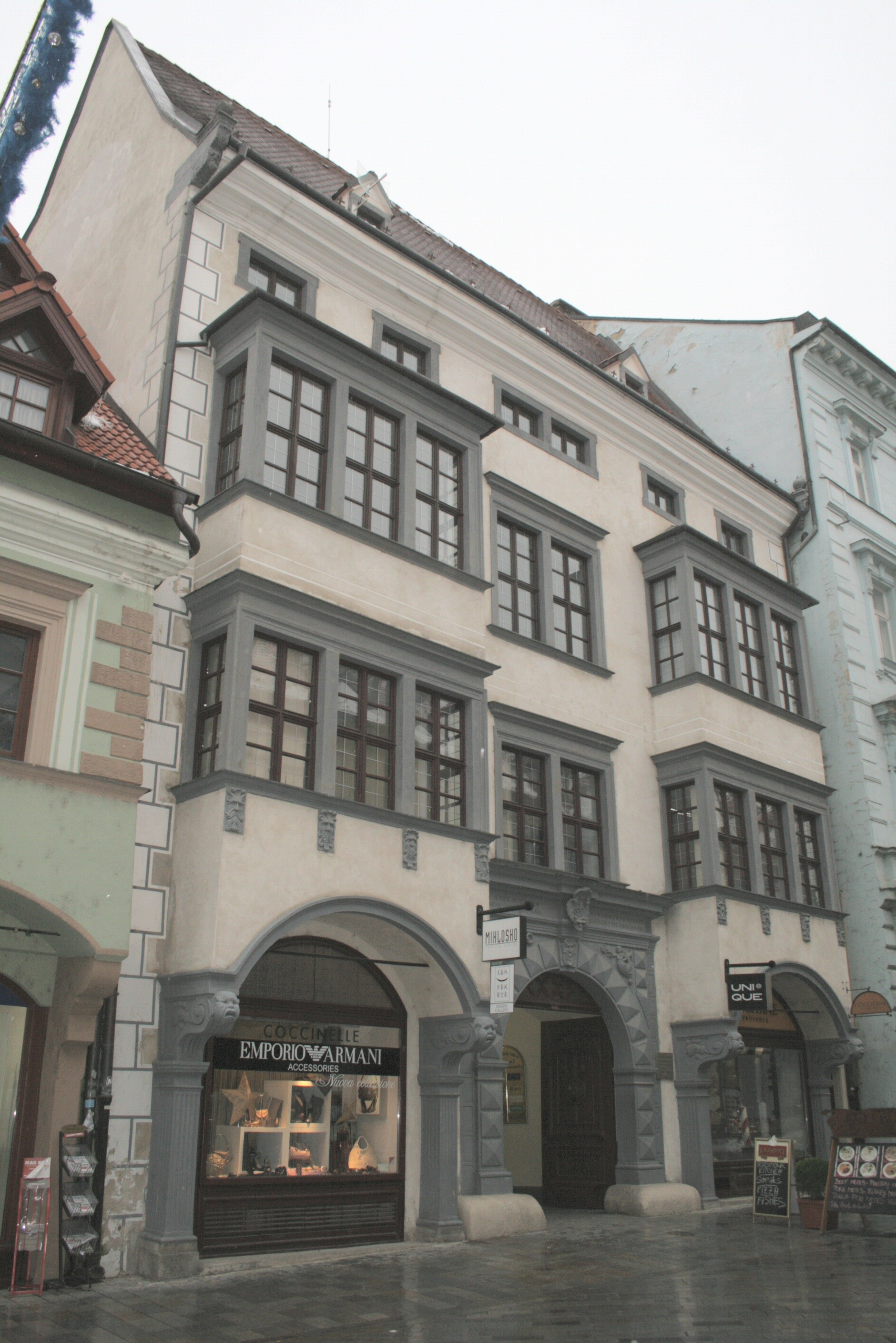 'Segnerova kúria', Michalska street 7, Bratislava, Slovak republic. Birthplace of J.A.Segner.